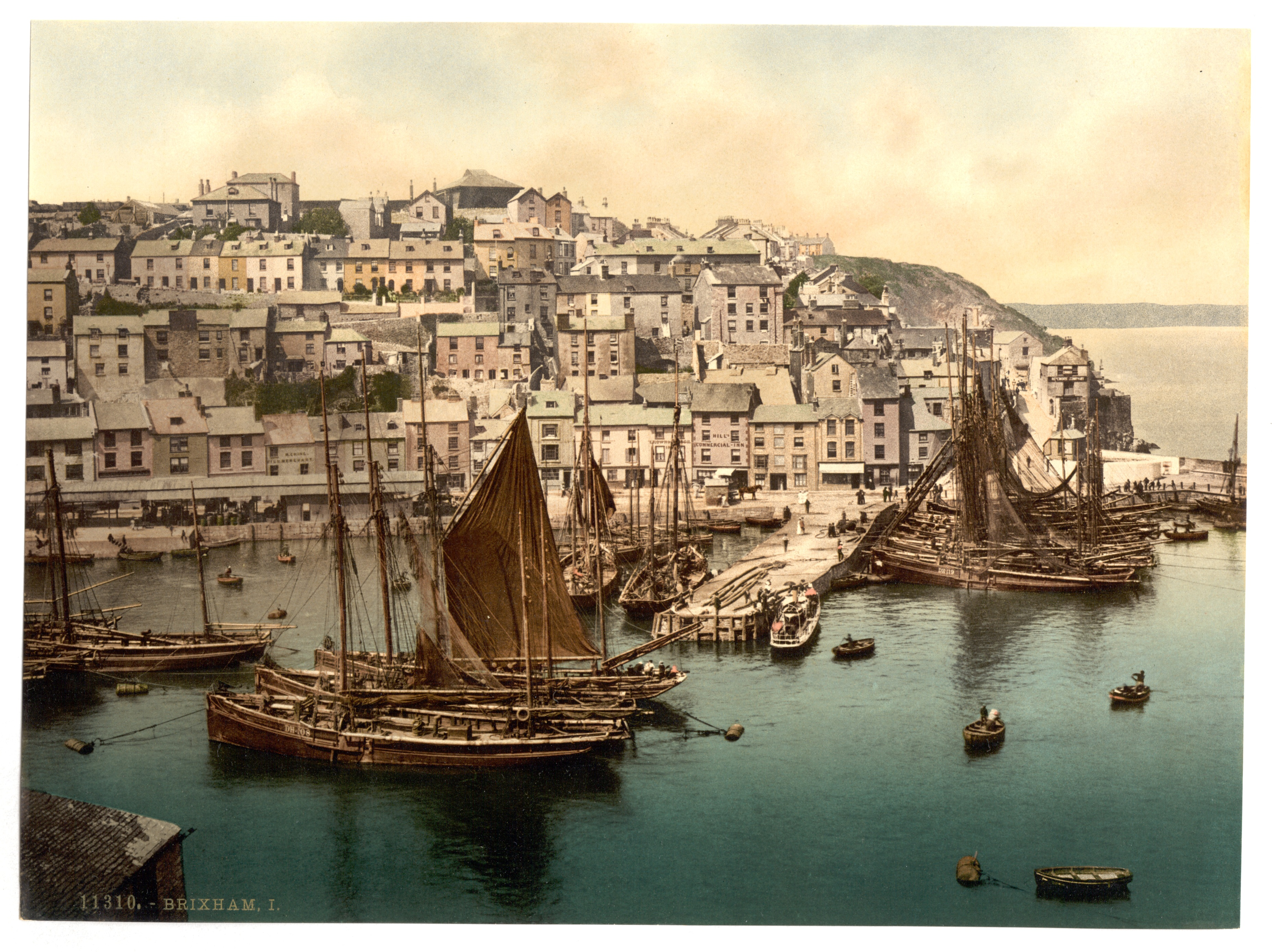 Forms part of: Views of the British Isles, in the Photochrom print collection.; Print no. "11310".; Title from the Detroit Publishing Co., Catalogue J-foreign section, Detroit, Mich. : Detroit Publishing Company, 1905.; More information about the Photochrom Print Collection is available at